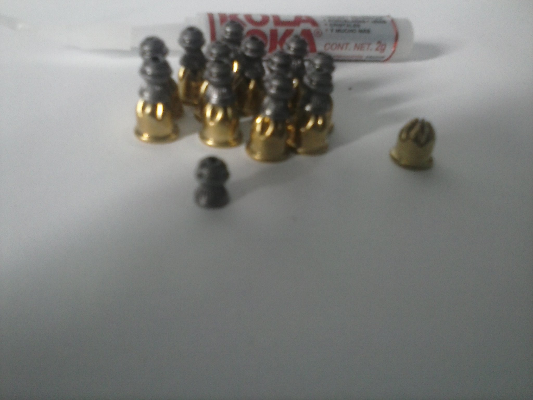 Mendoza 2000 Express pellets .177 caliber attached to Aguila Ultra Sonoro blanks using Kola Loka.